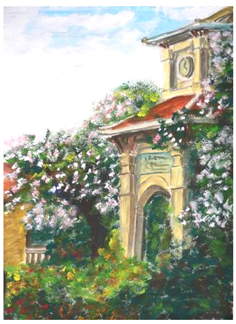 Le Hong Phong High School for the Gifted